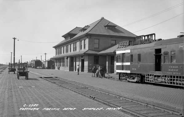 Northern Pacific Railway depot, Staples, Minnesota, built 1909. At the extreme right of the image is one of the Northern Pacific's Gas-Electric cars (this appears to be B-24), used for passenger and mail service on lightly traveled branch lines.